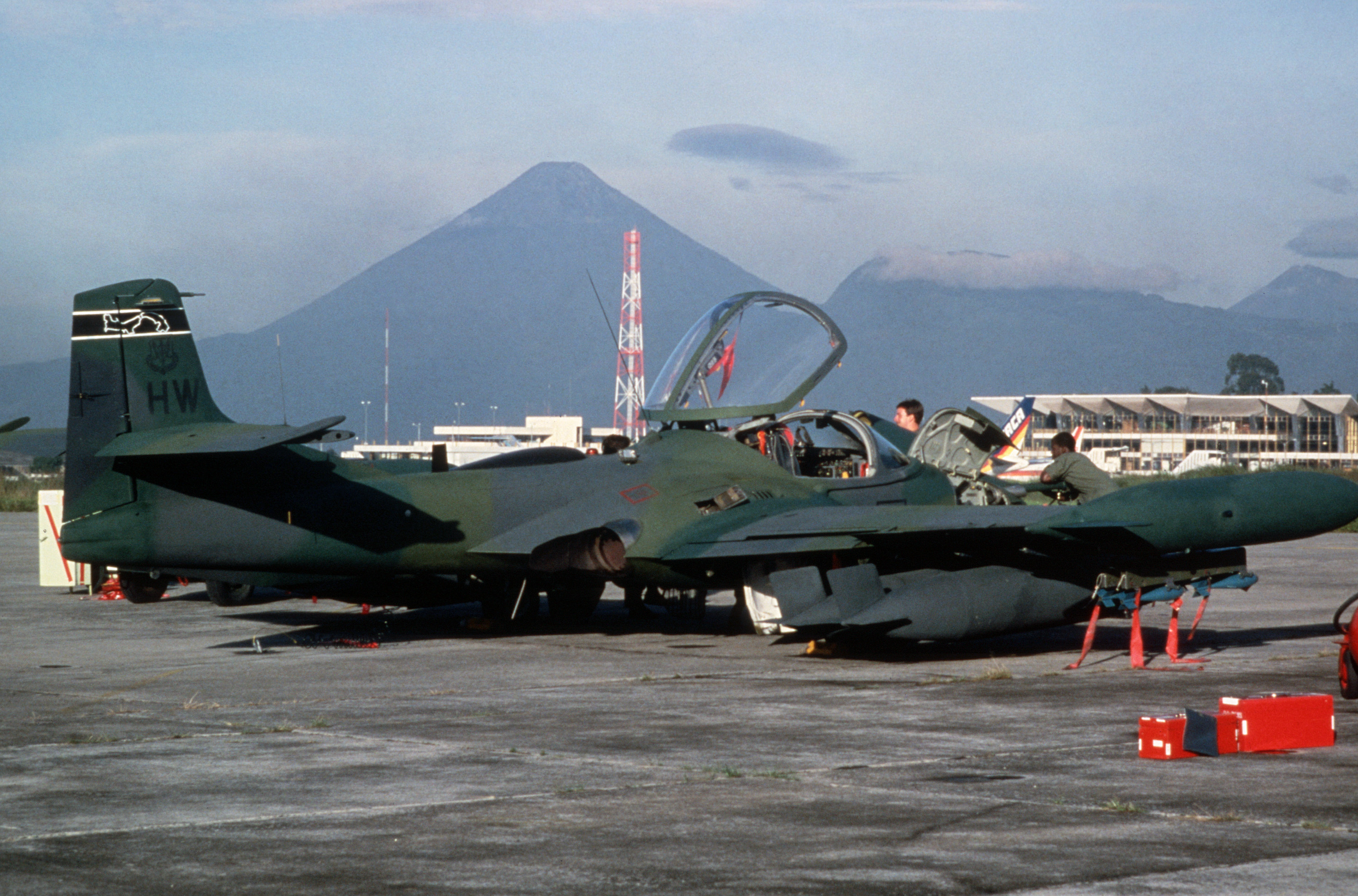 A U.S. Air Force Cessna OA-37B Dragonfly aircraft of the 24th Composite Wing from Howard Air Force Base, Canal Zone, is parked on the flight line of a Guatemalan air base on 29 July 1987. Members of the wing were deployed to Guatemala for training.